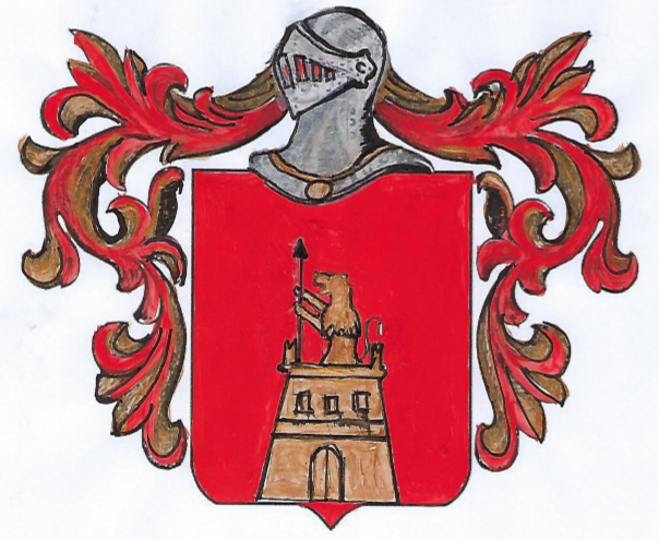 Arms of Cimini, Central Italy, Cit unknown possibly Rieti or Rome